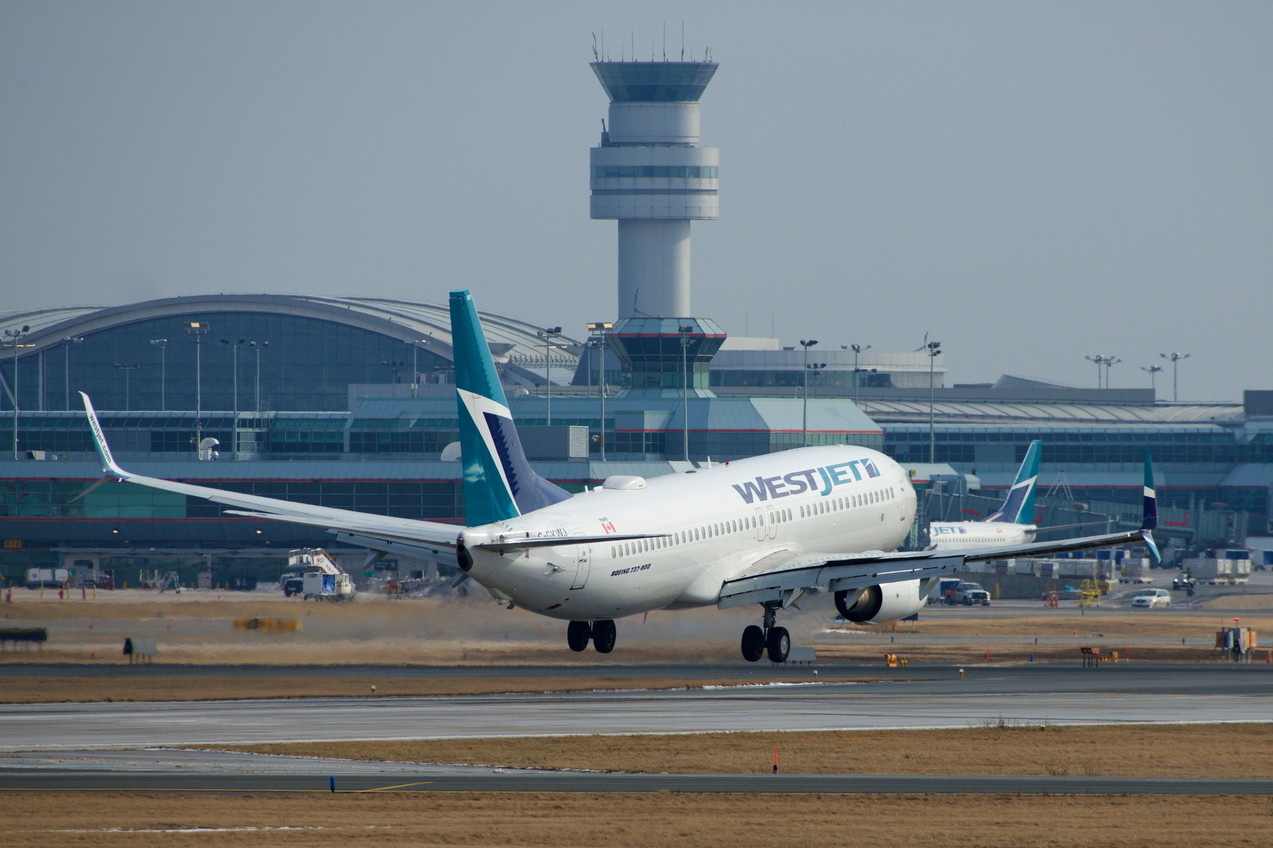 Moments from touching 15L